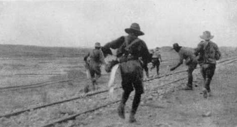 Photo showing soldiers laying demolition charges on railway tracks near Asluj during operations to destroy the railway in May 1917 Other information First published in 1922 in New Zealand